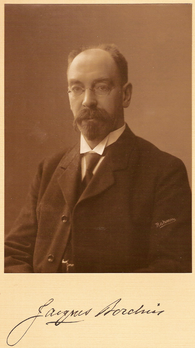 Jacques Borelius (1859-1921), swedish doctor and professor of surgery at Lund University, Sweden.